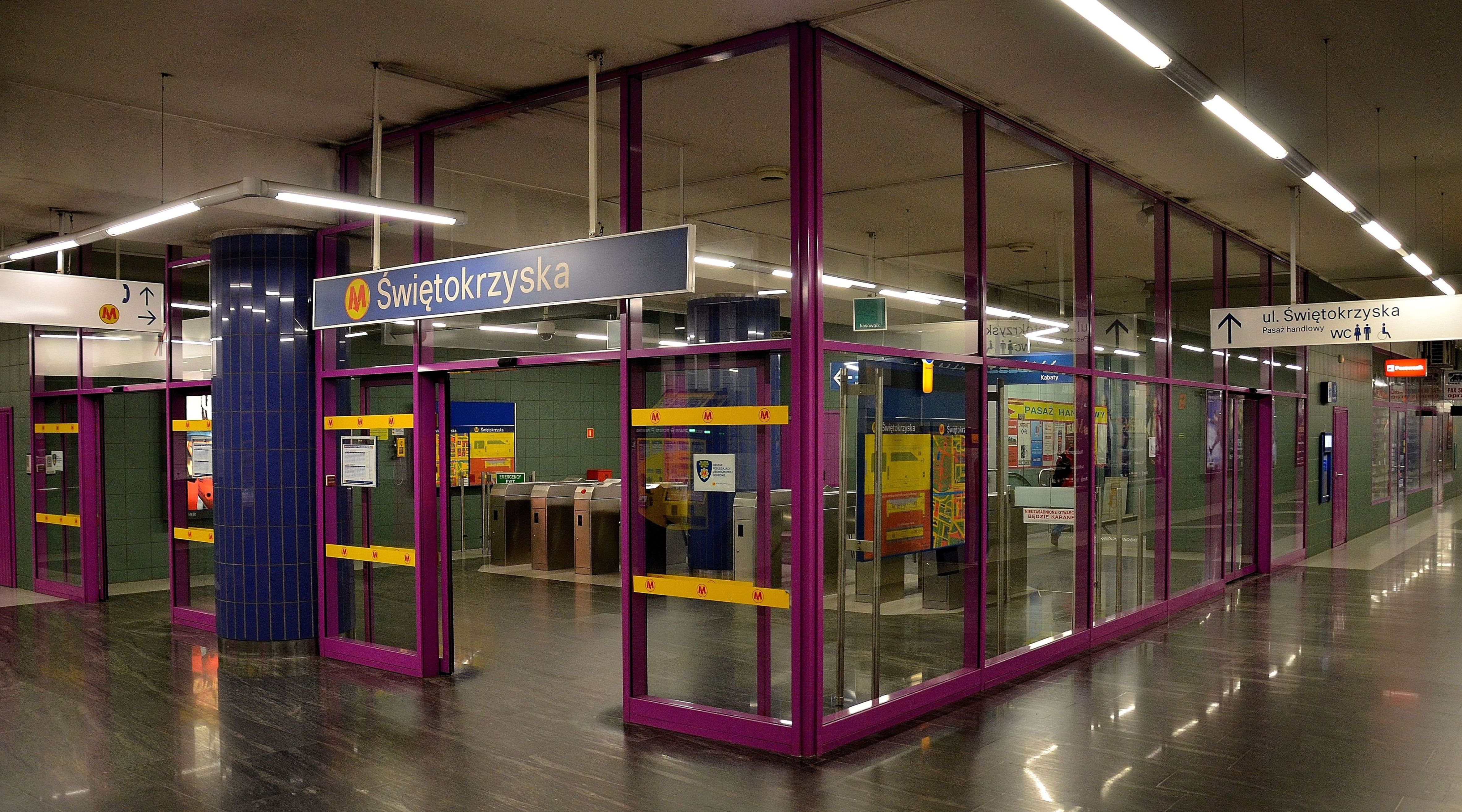 Świętokrzyska metro station (northern entrance)